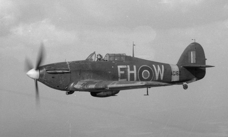 A Royal Air Force Hawker Hurricane Mark X (AG162 "EH-W") of No. 55 Operational Training Unit based at Annan, Dumfriesshire (UK), in flight.